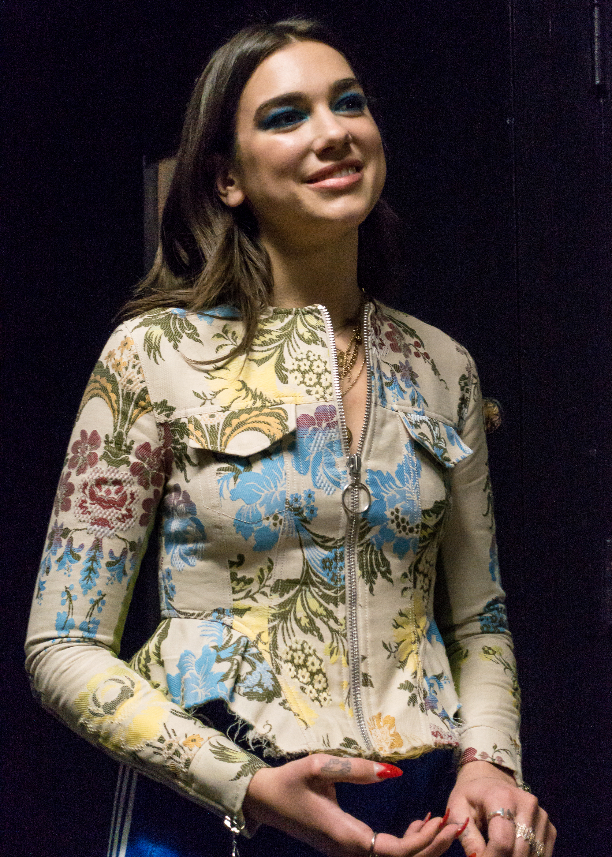 Dua Lipa performing live at the Hollywood Palladium in Los Angeles, California, on Monday, February 12, 2018. This was the second of two sold out nights at this venue on her "Self-Titled Tour".